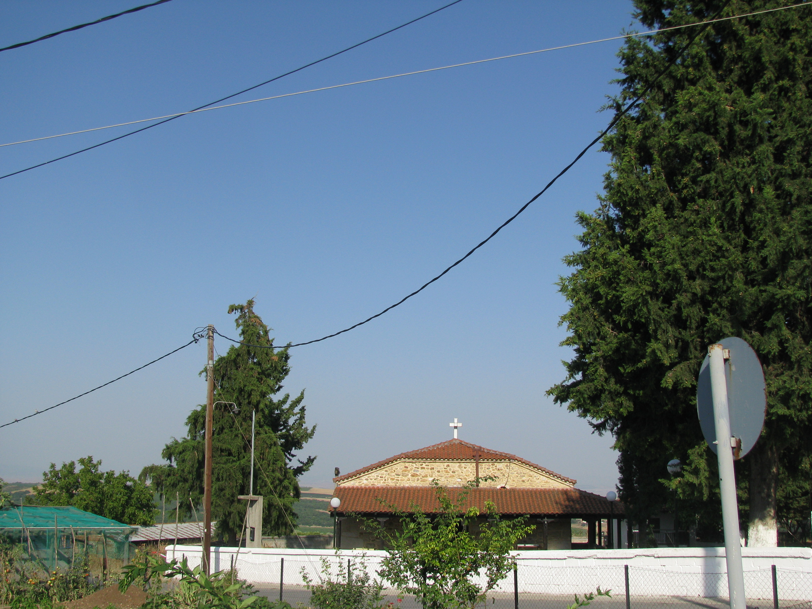 Church in Gerkarci or Gerakon, Greece